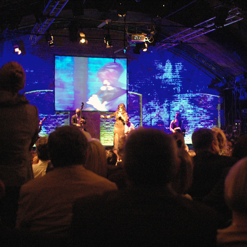 Multinational musical group with singer Yasmin Levy performing in Warszawa, Poland